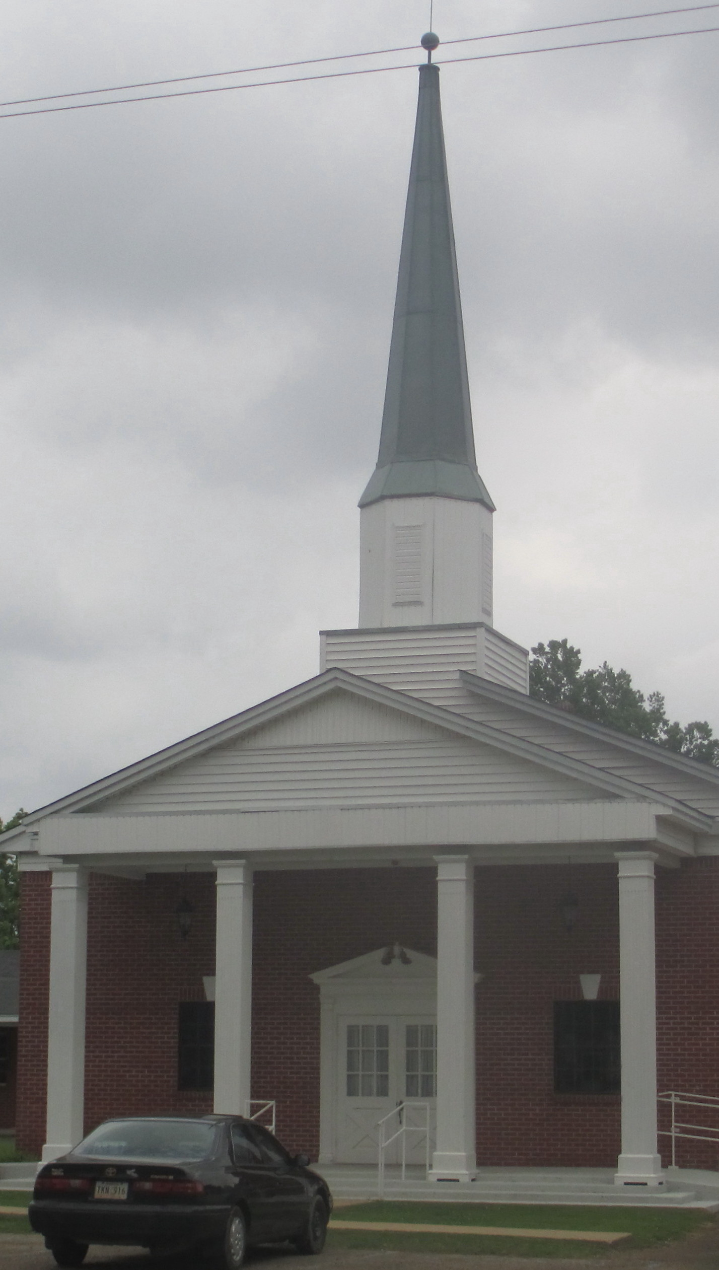 I took photo of Forest Baptist Church in Forest, LA, with Canon camera. Revised copy